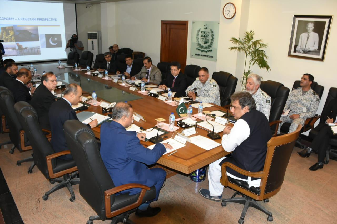 Minister Maritime Ali Haider Zaidi chairs meeting on Blue Economy. Federal Secretary Rizwan Ahmed, Vice Chief of Naval Staff Admiral Kaleem Shaukat and other senior officers attend the meeting